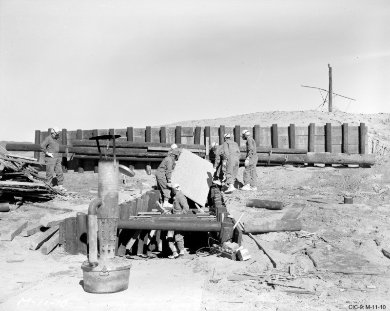 BAKER Event - January 31, 1951 - Photograph of entrance to block house three days after the second test of the RANGER Operation. (Photograph courtesy of Los Alamos National Laboratory, CIC-9, M-11-10)